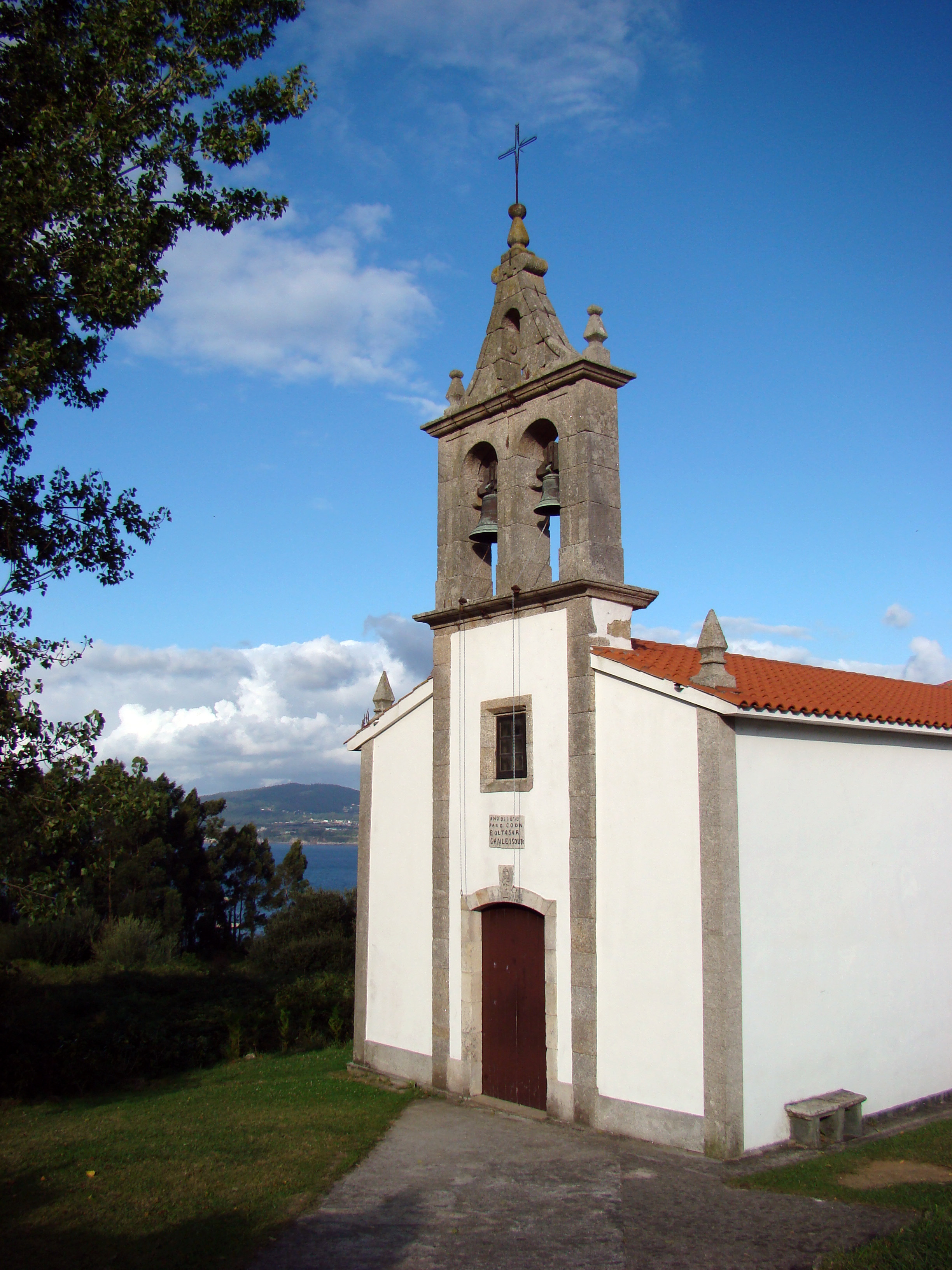 Santo André Church in Carnoedo, Sada, Galicia, Spain